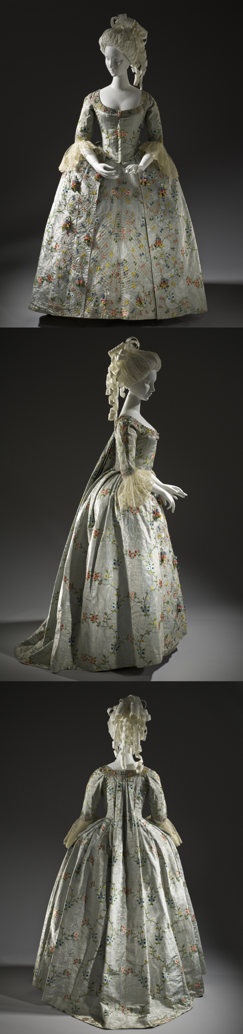 Silk Robe a la Française. The Netherlands (?) ca. 1775 (Los Angeles, The Los Angeles County Museum of Art)